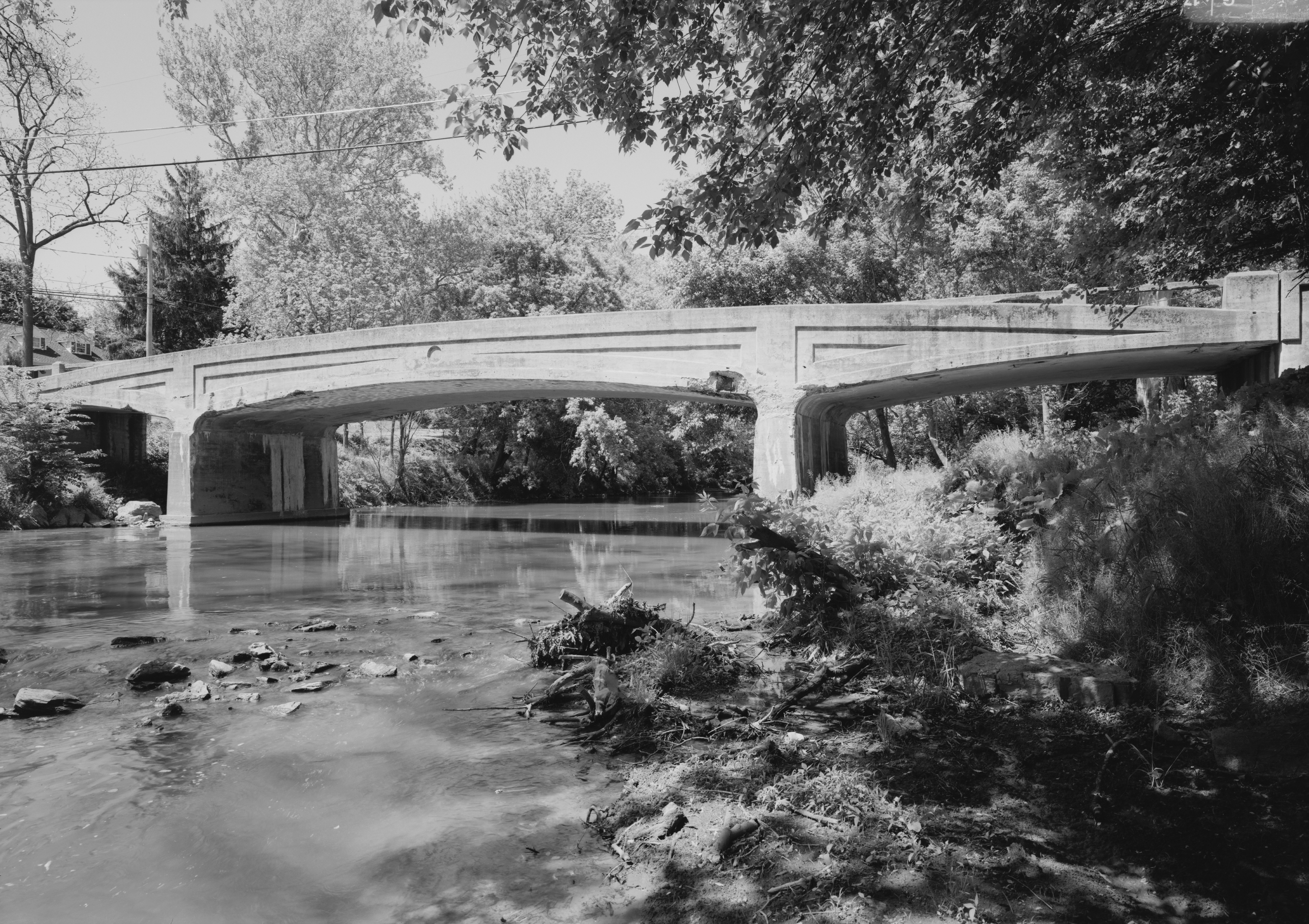 Bridge in West Earl Township, Spanning Conestoga River at Farmersville Road (State Route 1010), Brownstown vicinity, Lancaster County, PA